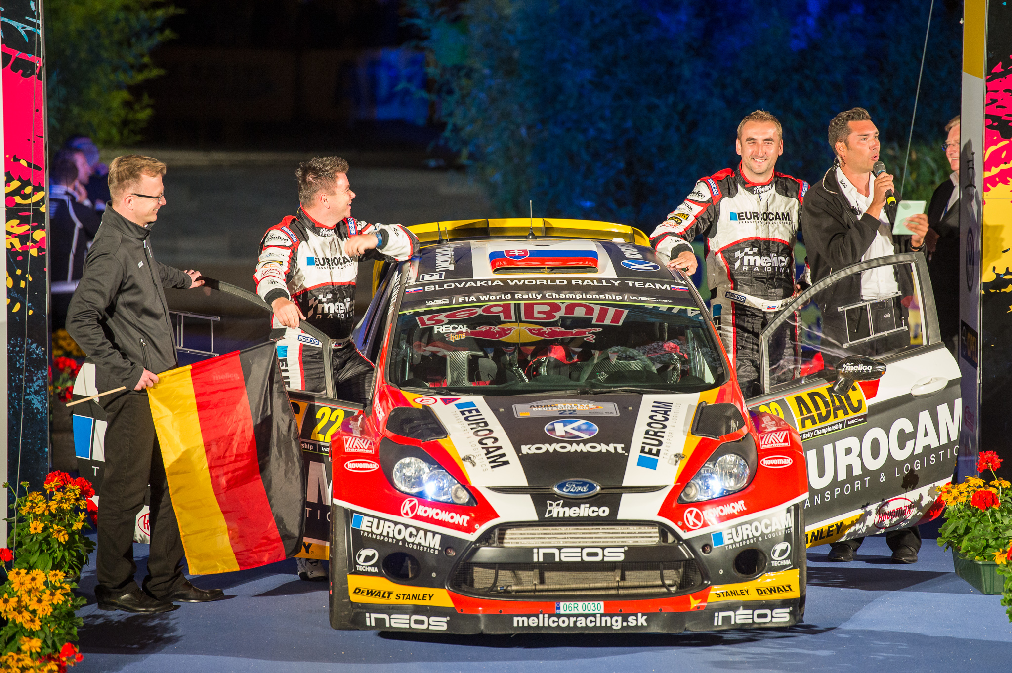 ADAC Rallye Deutschland 2014,Ceremonial Start,Erik Melicharek,FIA,FIA World Rally Championship,Ford Fiesta RS WRC,Jaroslav Melicharek,Motorsport,Rally,Rallye,Showstart,Slovakia WRT,Slovakia World Rally Team,WRC,Zeremonienstart